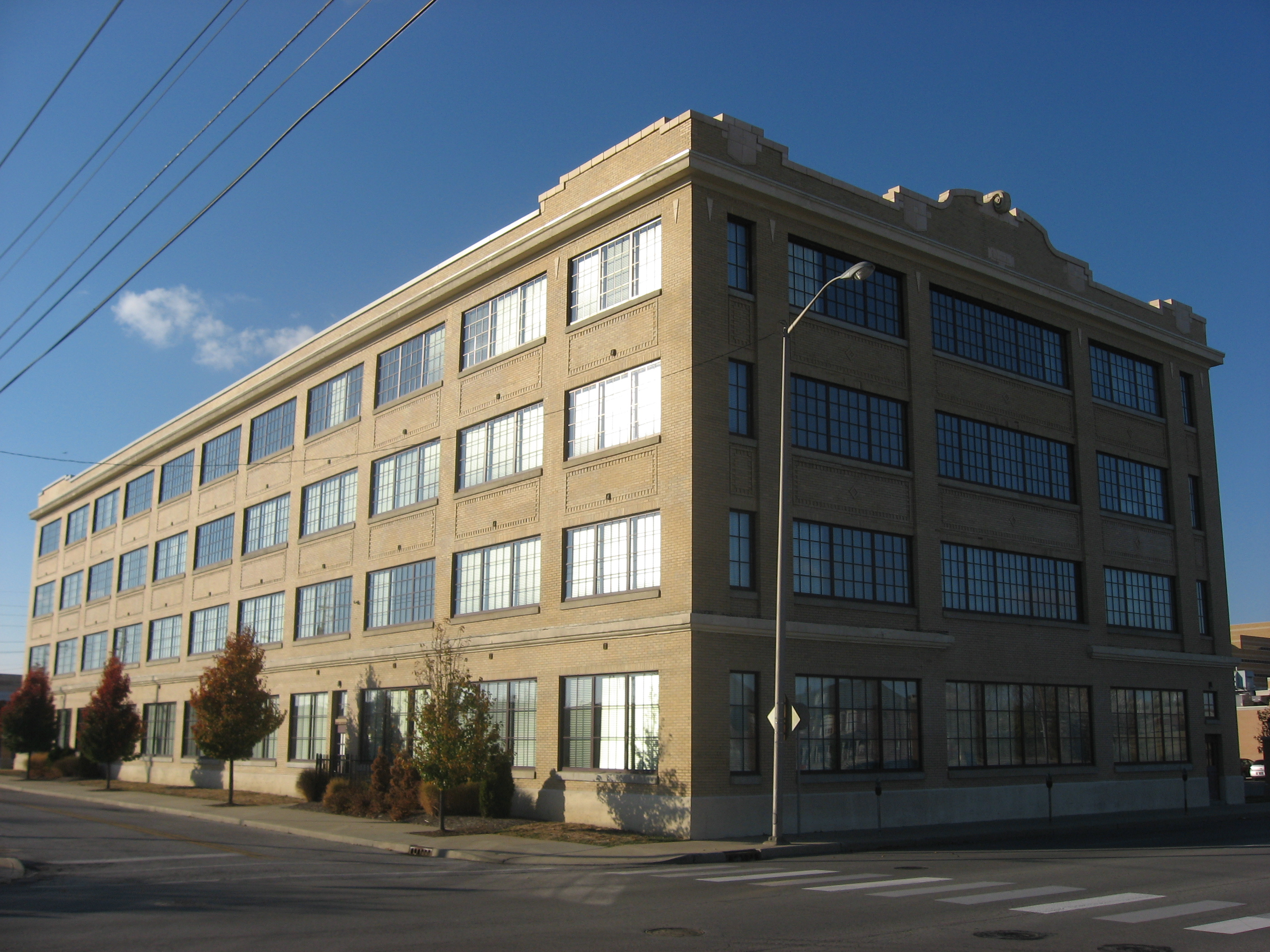 Front of the former headquarters of the HCS Motor Car Company, located at 1402 N. Capitol Avenue in Indianapolis, Indiana, United States. Built in 1921, it is listed on the National Register of Historic Places.